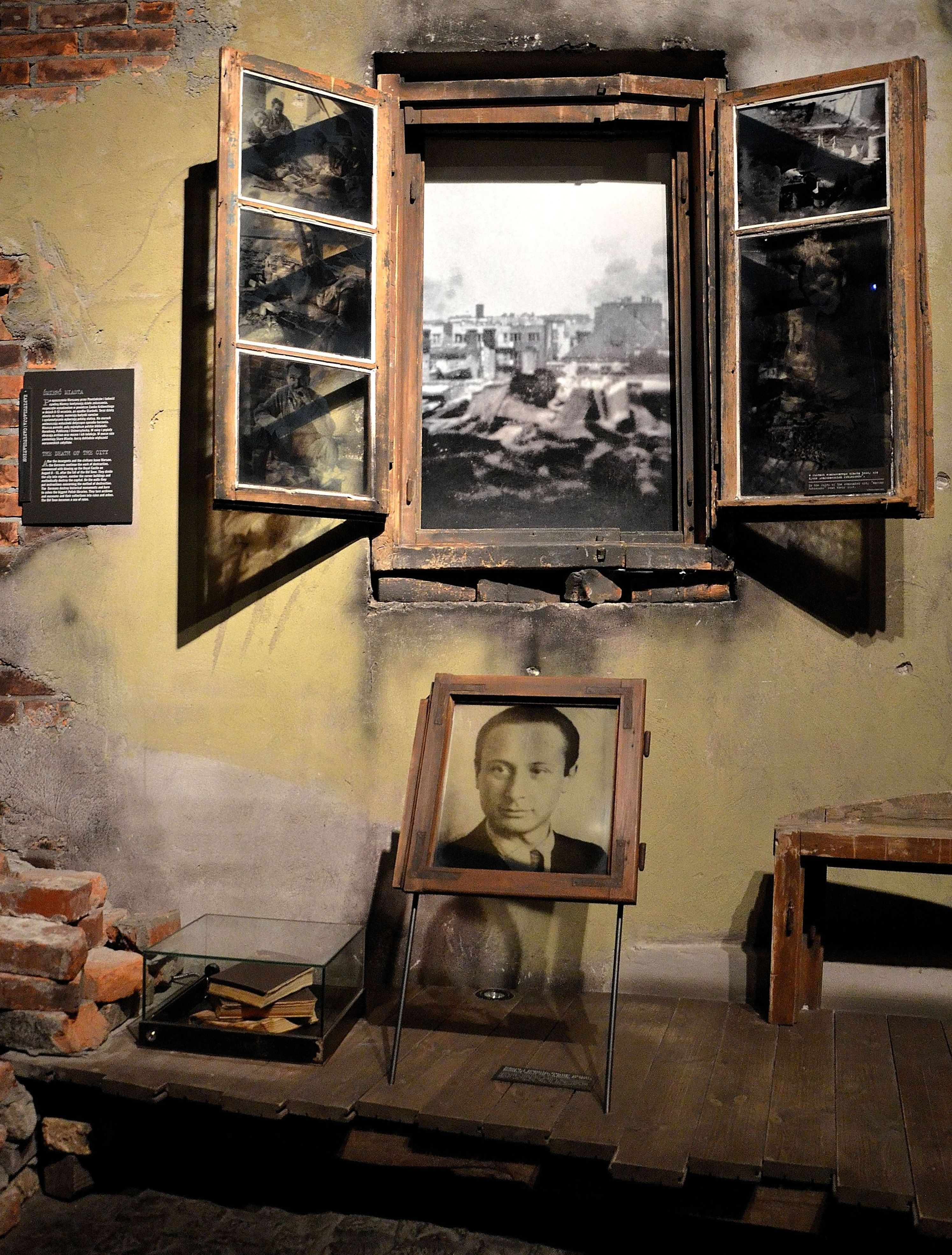 Władysław Szpilman's picture at the Warsaw Uprising Museum